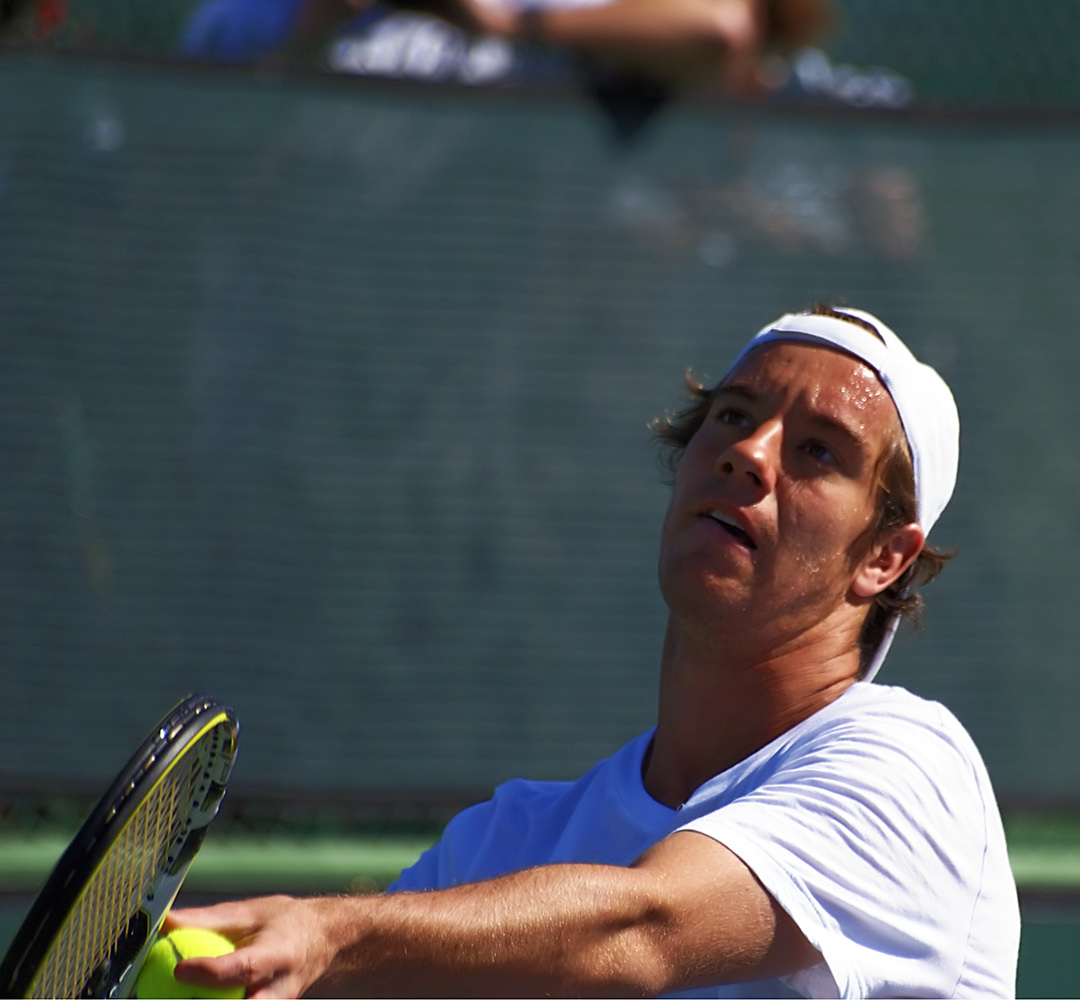 Richard Gasquet preparing to serve at the 2008 Pacific Life Open.